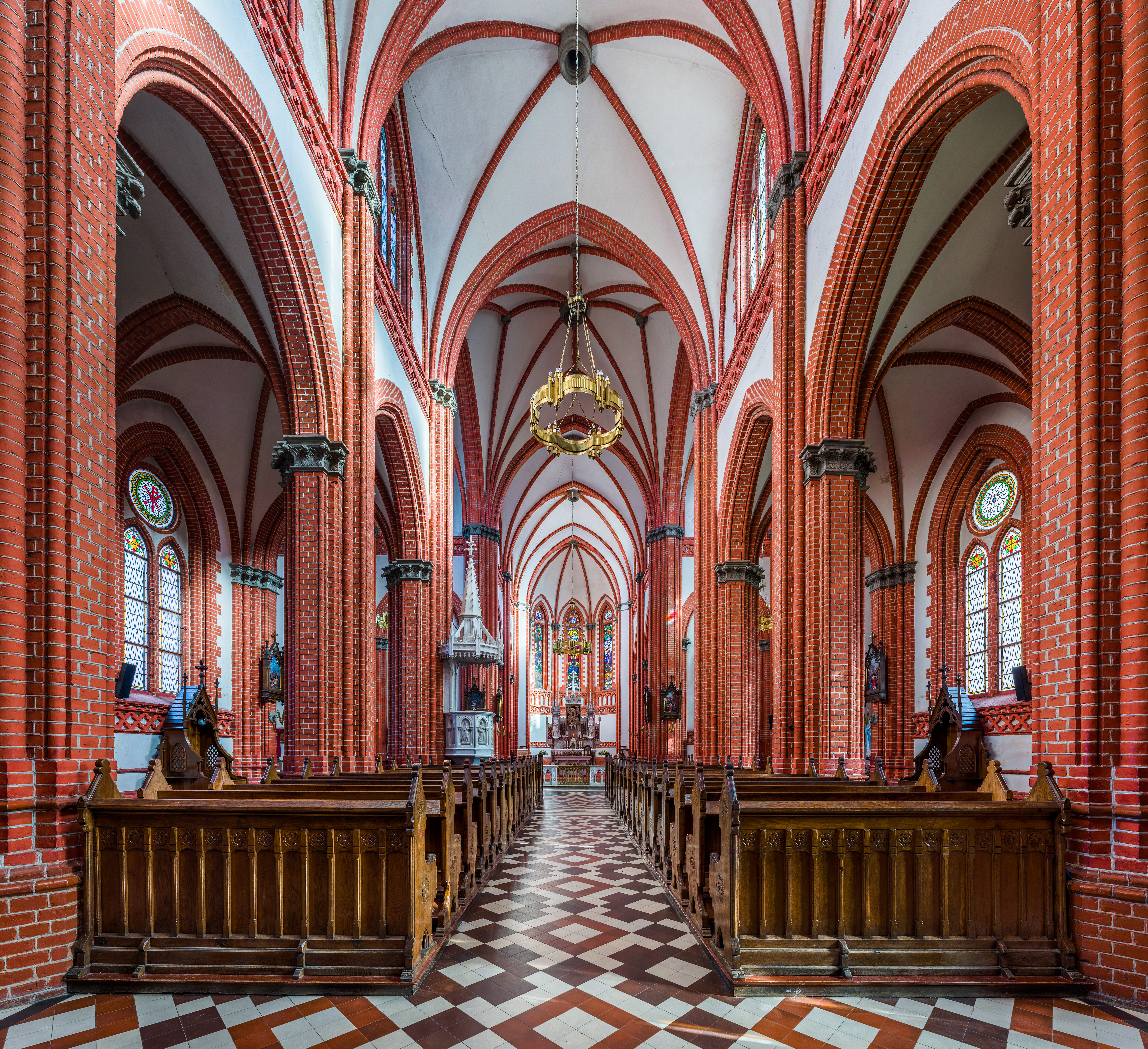 The interior of the church of Saint Marie, Palanga, Lithuania